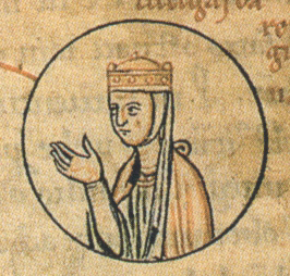 Liutgard von Sachsen